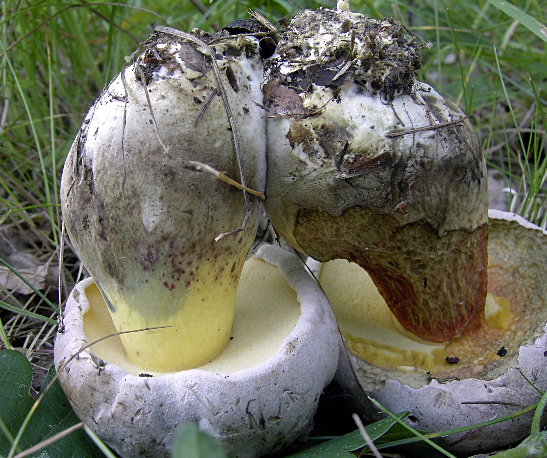 Boletus radicans: Under oaks at the outskirt of the forest; taste bitter; height: about 280m above sea level